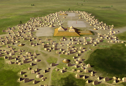 Artists conception of the Middle Mississippian culture "Emerald Acropolis" mound site near Lebanon, Illinois, USA.